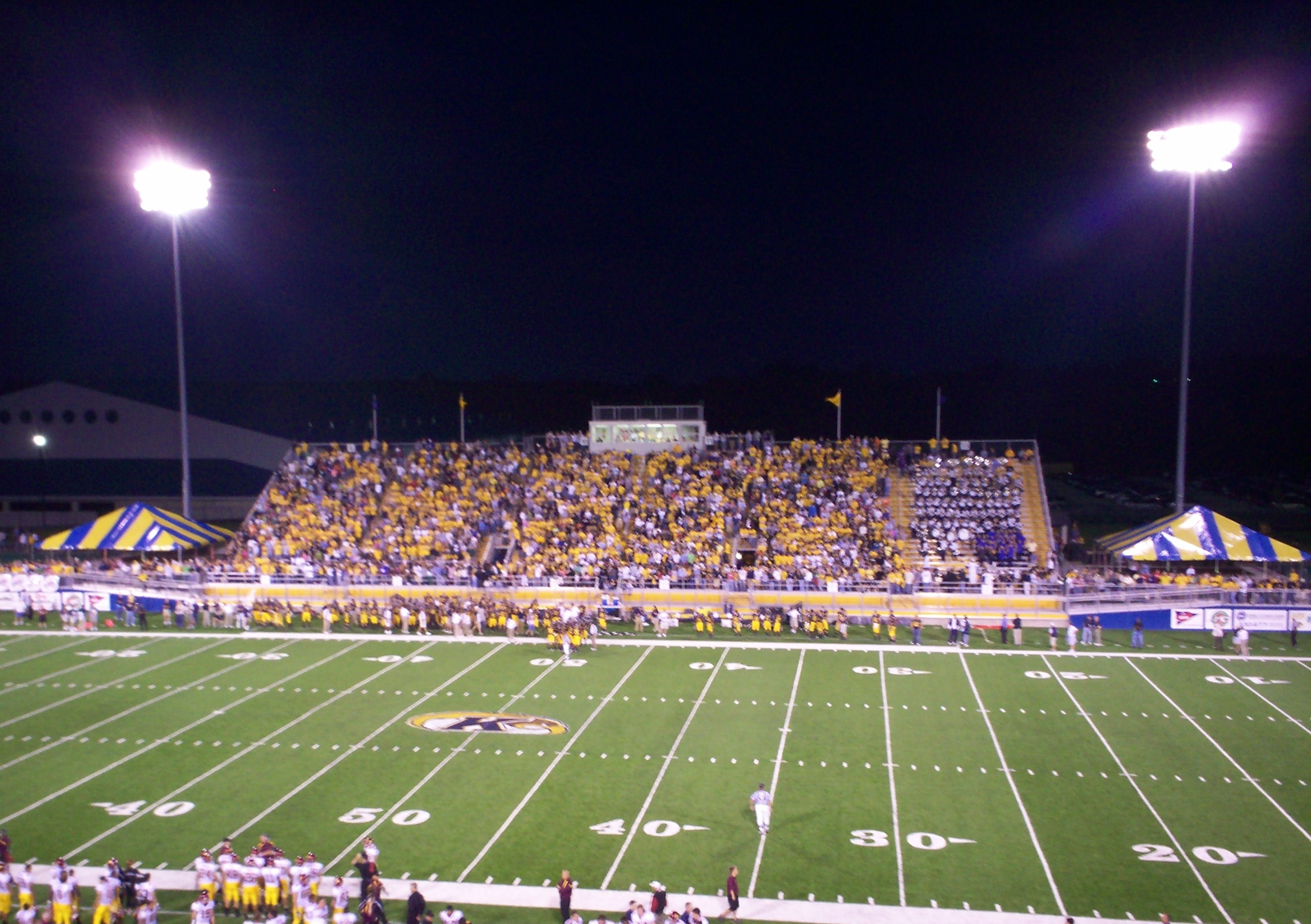 Photo of current Dix Stadium east stands on the campus of Kent State University in Kent, Ohio. Originally uploaded to English Wikipedia 17 October 2006.